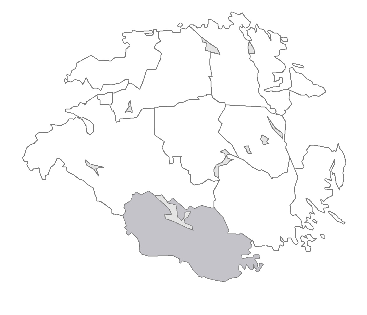 Map describing the location of Jönåker Hundred in Södermanland County, Sweden.